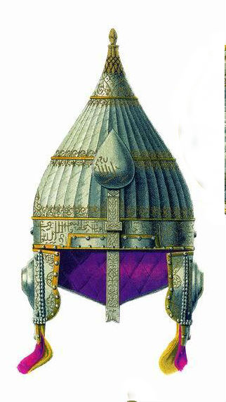 Jerichonka helmet